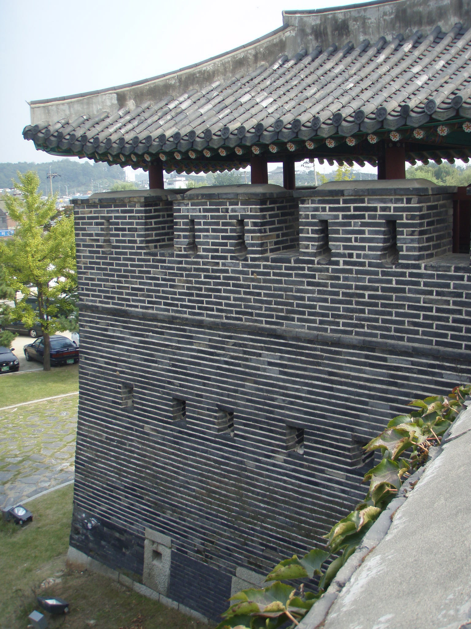 Bukdongporu Suwon Hwaseong Fortress UNESCO